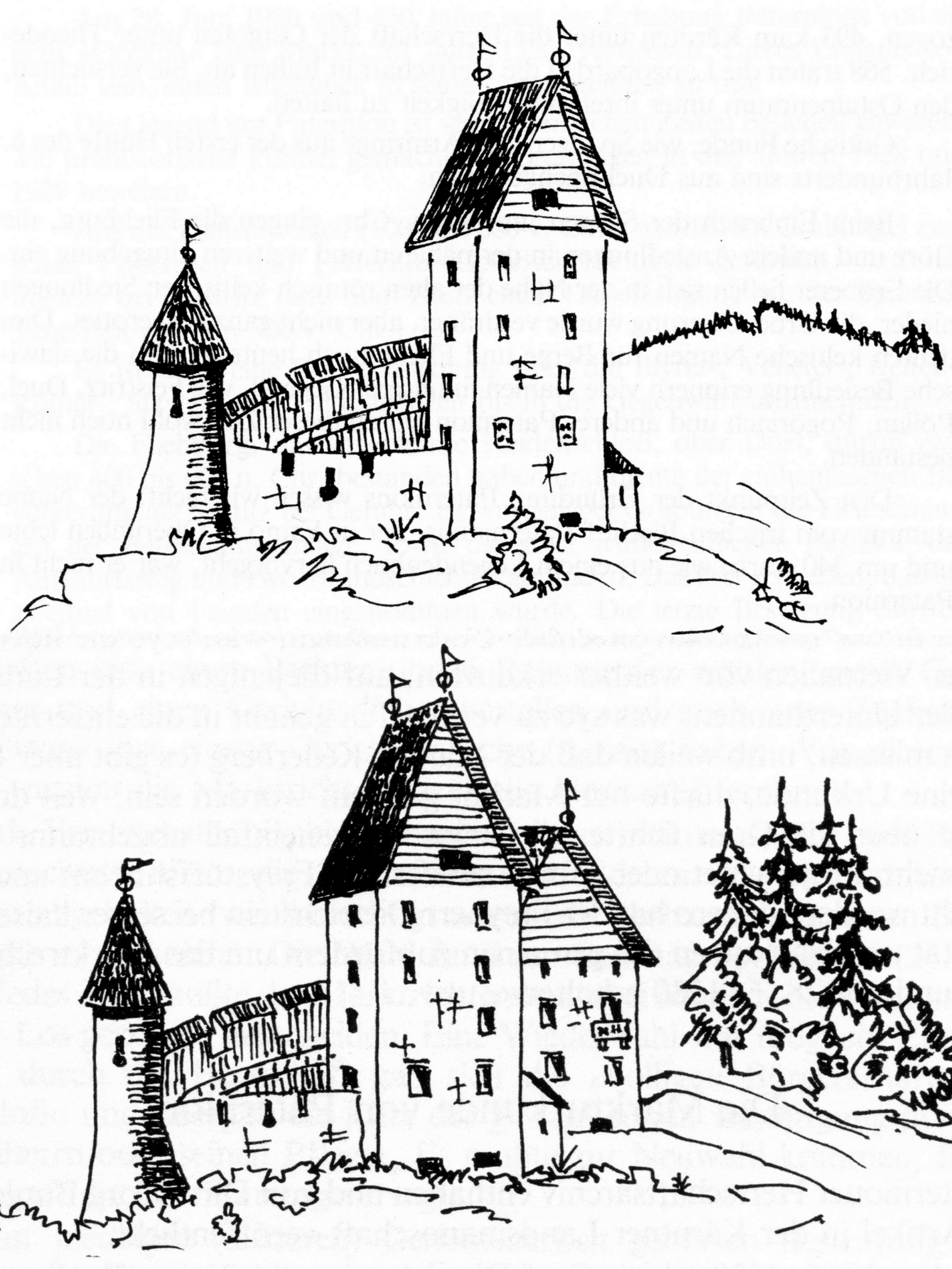 Paternion castle in district Villach-Land in Carinthia / Austria / EU. Probable stages of expansion as a tower about 12 Century until about 1587 (above) or tower with Dietrichstainstöckl about 1587 to about 1600 (below). Sketch according to research by the former forestry director Gustav Forstner Billau in Paternion domination archive.